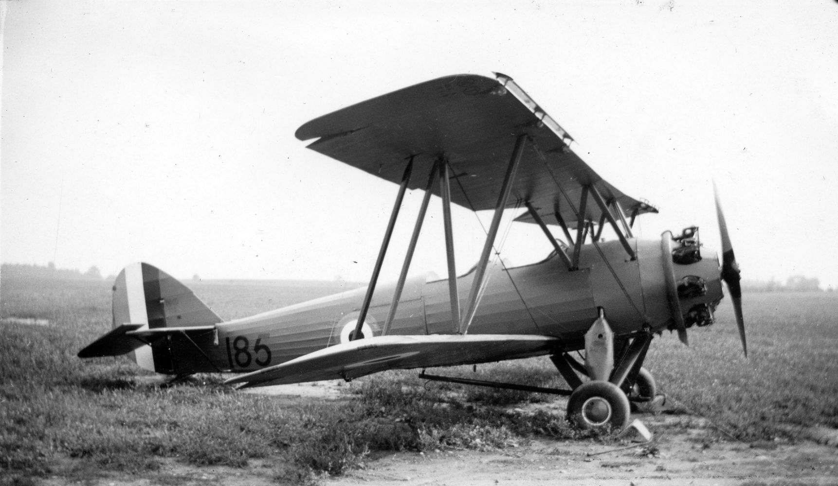 Images from an Album (AL-61A) which belonged to Mr. Lowry and was donated to the Leisure World Aerospace Club. Repository: San Diego Air and Space Museum Archive